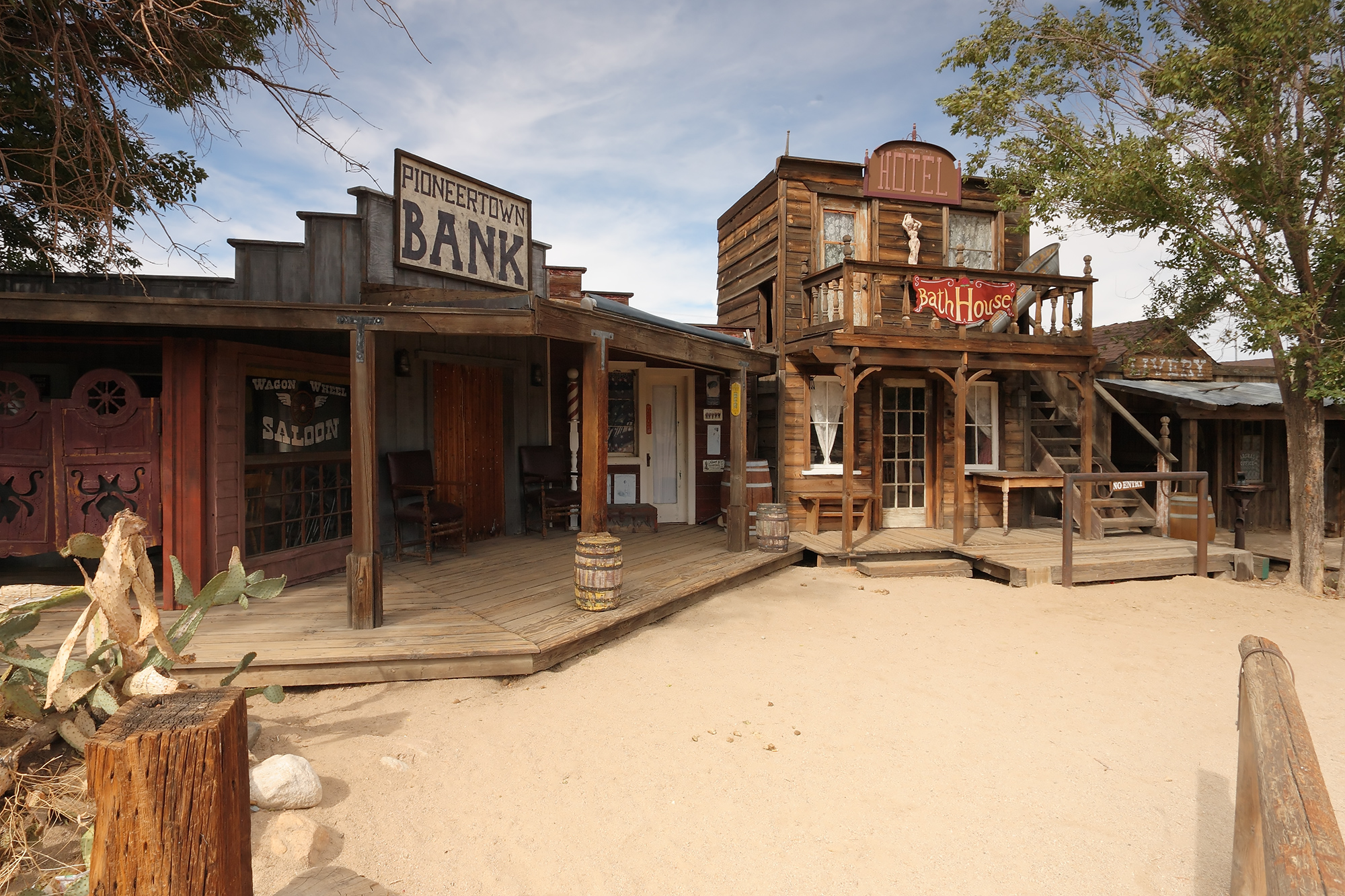 Saloon, bank, bath house and livery stable fronts on Mane Street in Pioneertown, California, an unincorporated and inhabited town built in 1946 as a movie/tv set by, amongst others, Roy Rogers.